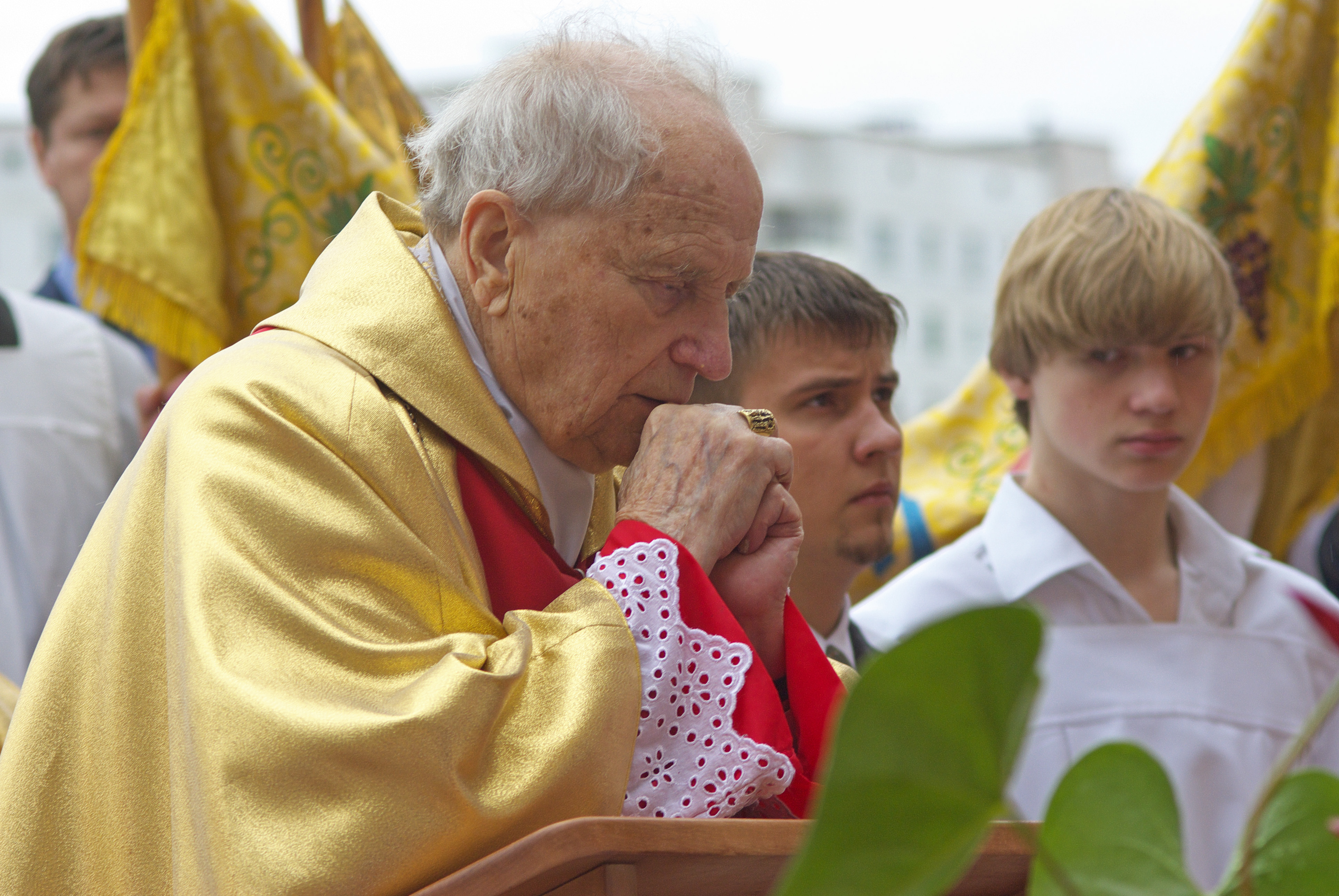 Cardinal Kazimier Sviontak